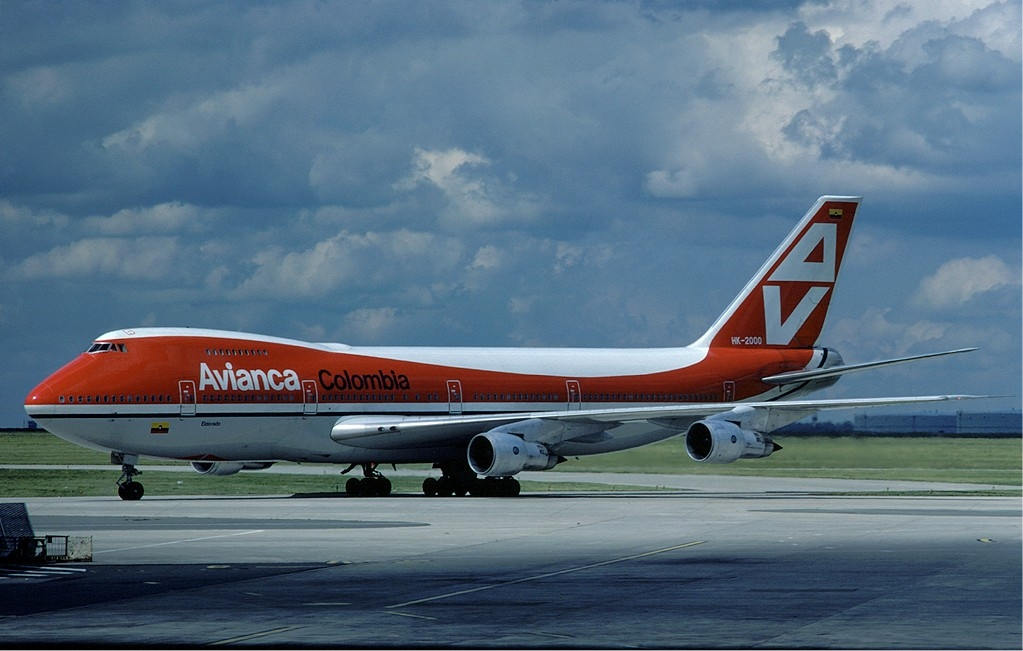 Avianca Boeing 747-200